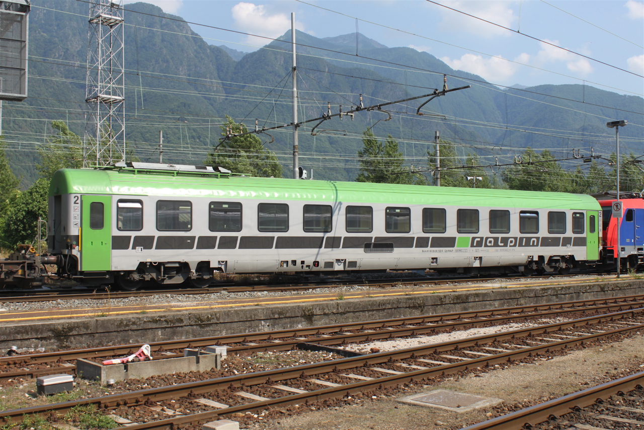 RAlpin Bcm 61 85 59-00 102-8 CH-RALP (formerly SBB CFF FFS Bcm 61 85 50-90 102-8) at Domodossola.